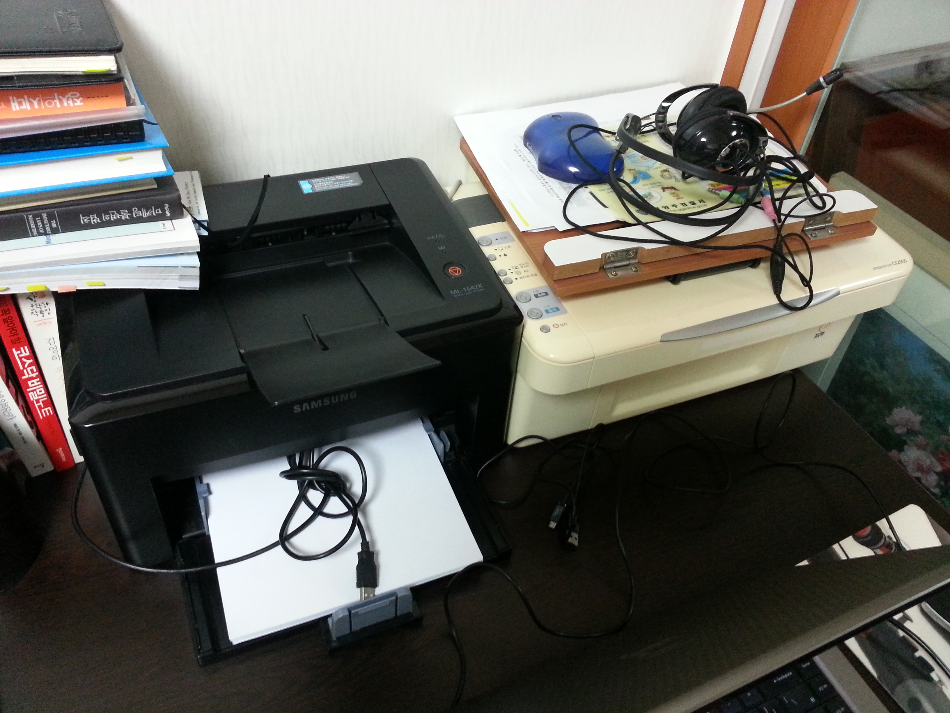 A Samsung ML-1642K printer and an Epson Stylus CX2905 printer.